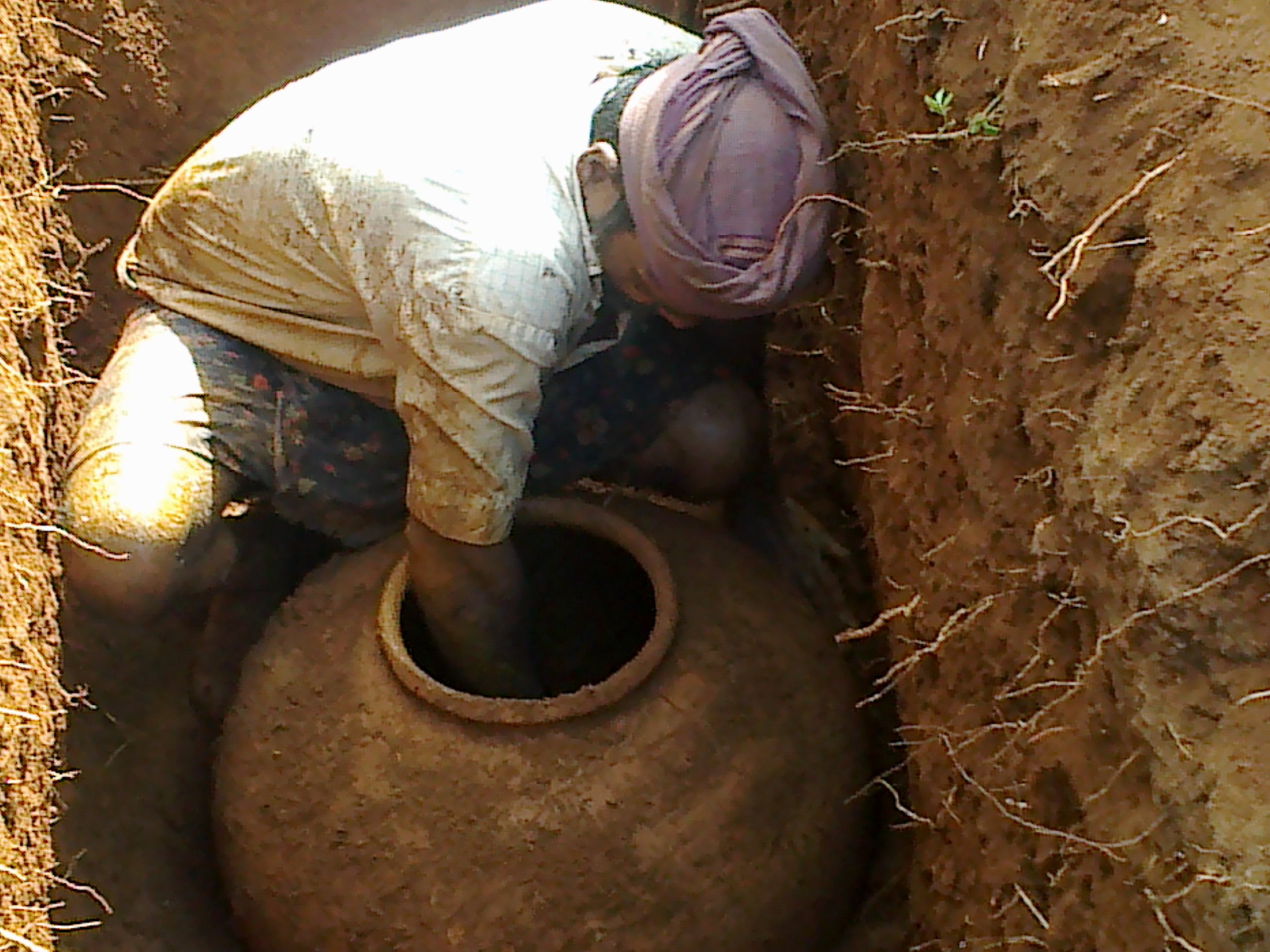 Nannangadi - A burial port made of clay in Iron age